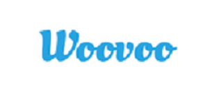 Woovoo Logo